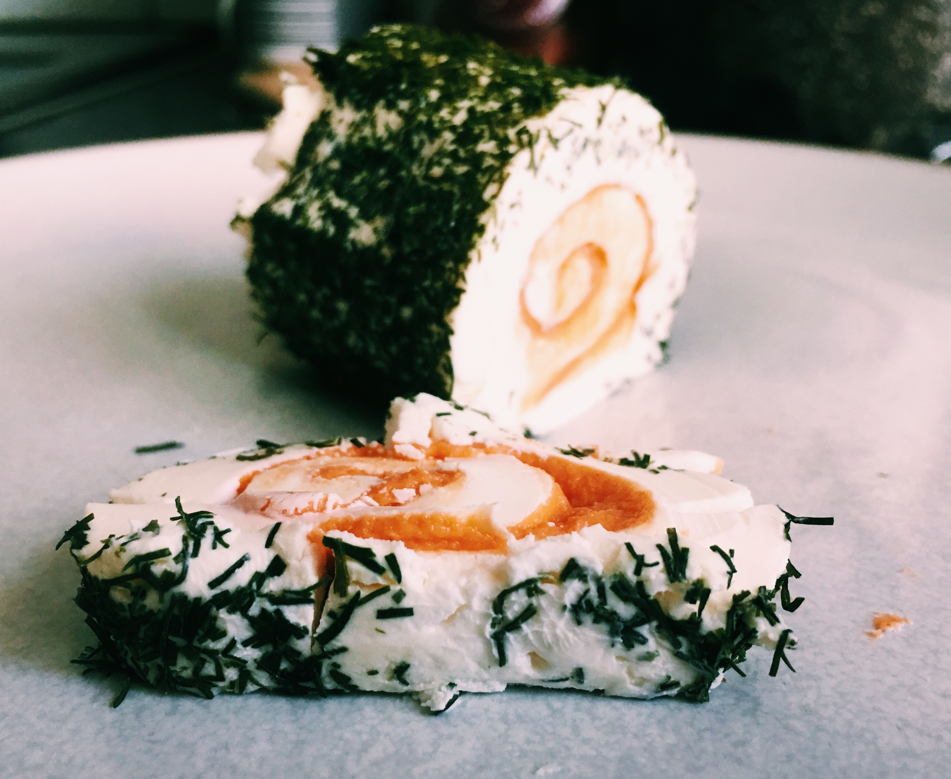 A slice of a mini roule of salmon and dill.